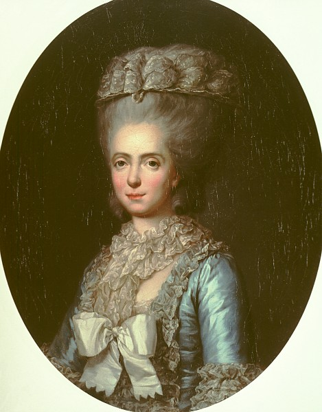 Presumed portrait of Adélaïde of France (1732-1800), So-called portrait of Sophie of France (1734-1782).